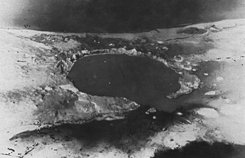 Crater created by the Cactus shot of Operation Hardtack I. The 18-kt detonation occurred on 5 May 1958 on Runit Island, Enewetak Atoll. The crater had a diameter of 105 meters and a maximum depth of 11 meters with a 2.5 to 4-meter lip. In 1979–1980 this crater was used as a burial pit to inter 84,000 cubic meters of radioactive soil scraped from the various contaminated Enewetak Atoll islands. It was then covered with a concrete dome, the Runit Dome.